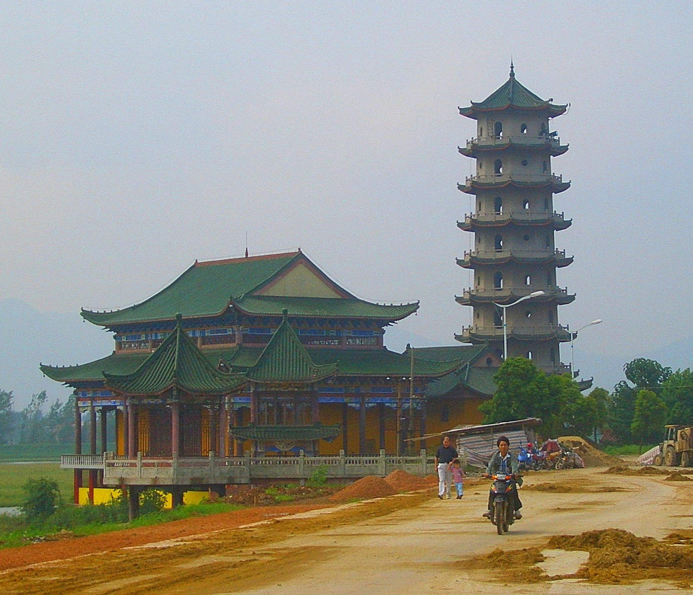 A new pagoda, still under construction, on the south sude of the Daye Town (Huangshi CIty, Hubei) near a bay of the Daye Lake.